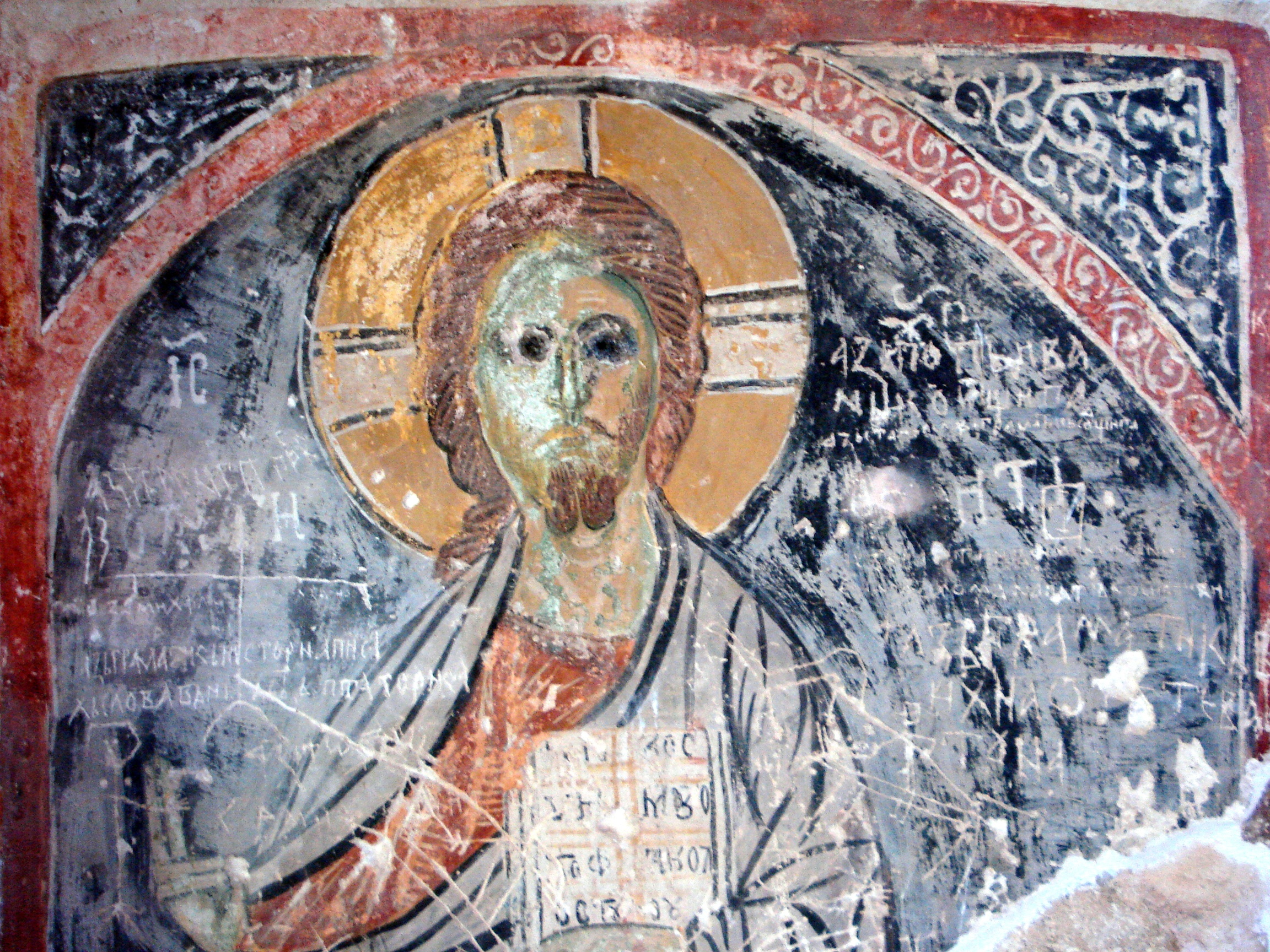 Saint George Kozjak Fresco of Christ Antifonitis